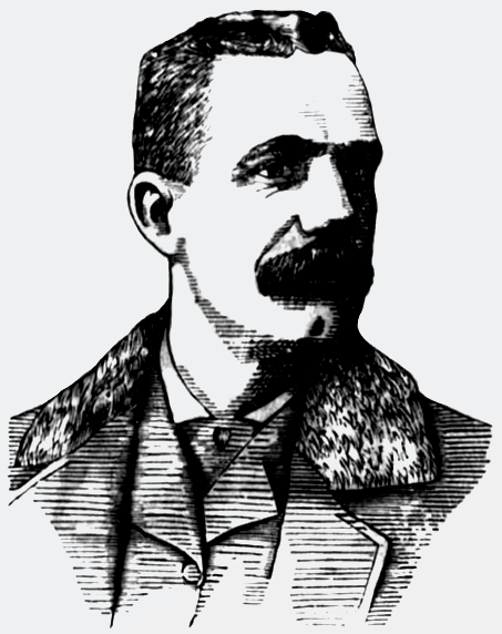 An illustration of professional baseball player Will Bryan